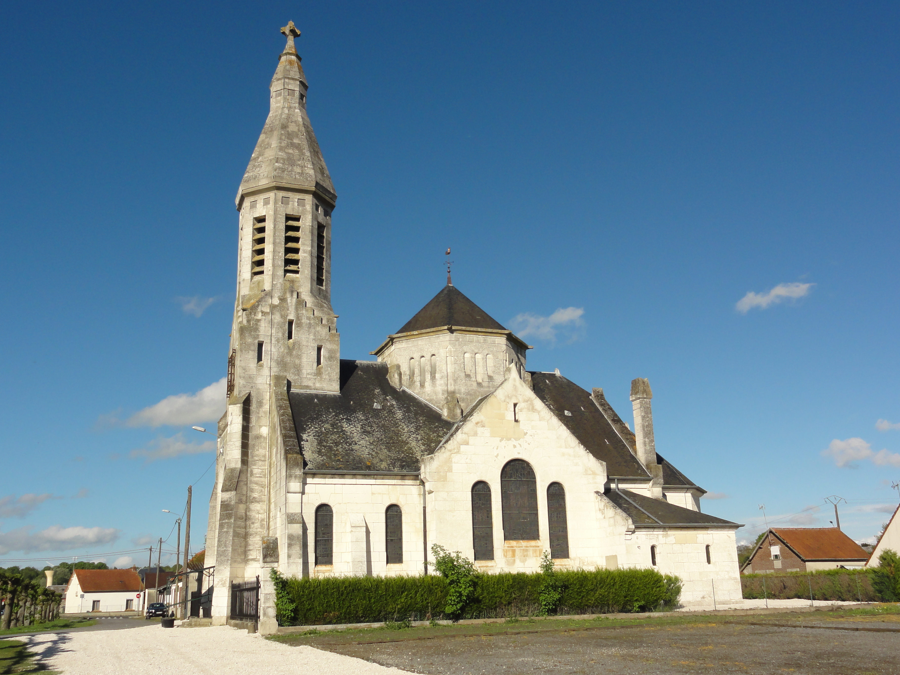 Liez (Aisne) église